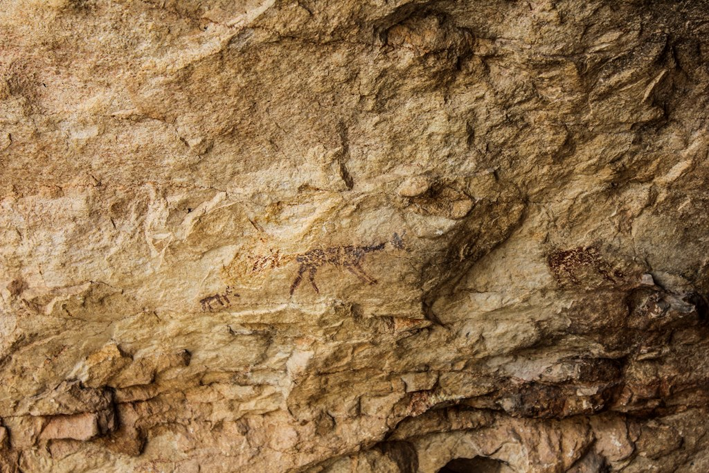 Os de Balaguer: Cova dels Vilars